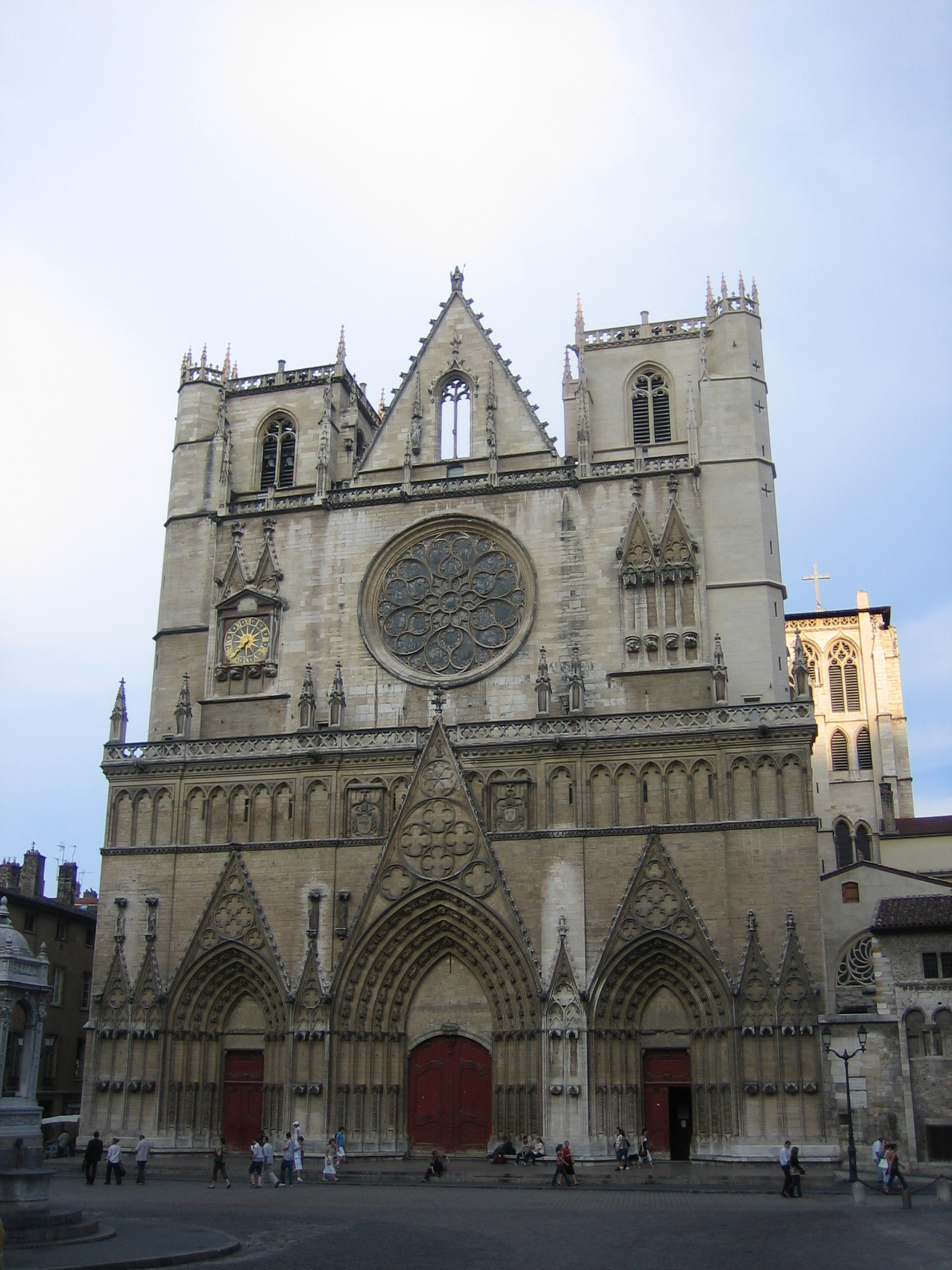 Cathedral Saint Jean in Lyon, France